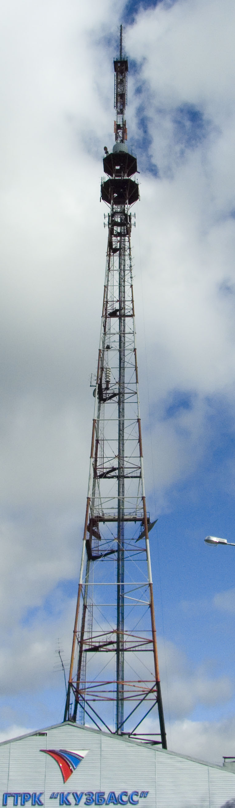 Kemerovo television station.